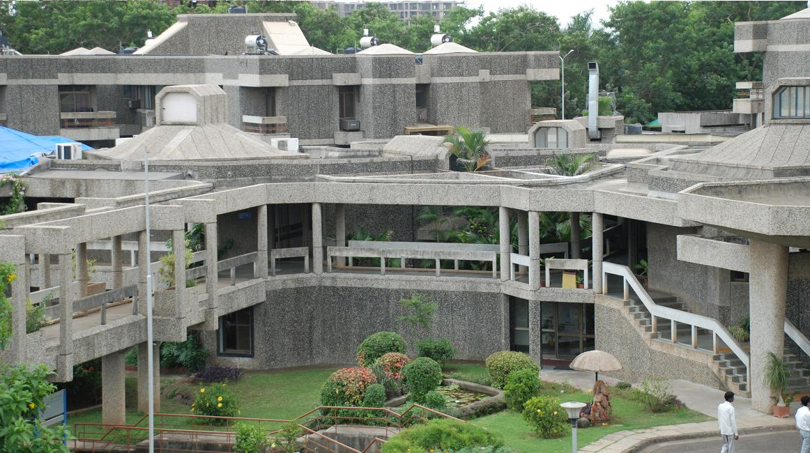 NIA SoM Campus